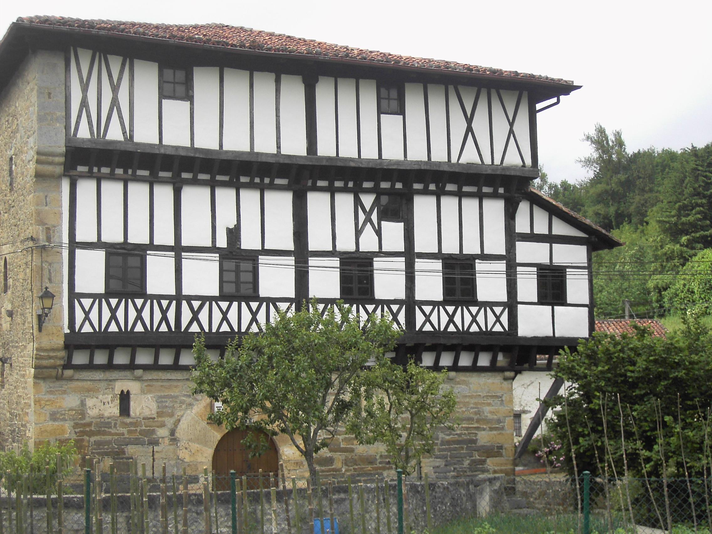 13th century castle in Arano, Navarre